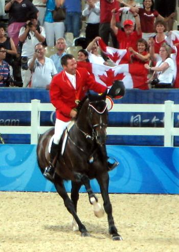 Eric Lamaze and Hickstead, 2008 Olympic Games equestrian in Sha Tin